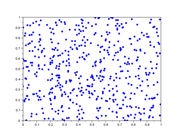 lag-plot : lag h=1 for a sequence of n=500 iid values with uniform distribution on [0,1] made using scilab